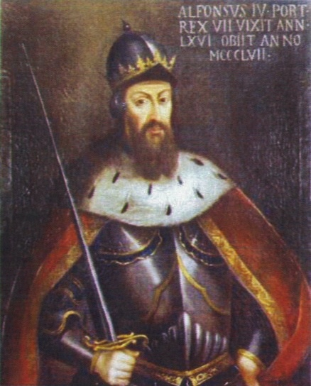 Afonso IV of Portugal (1291-1357)